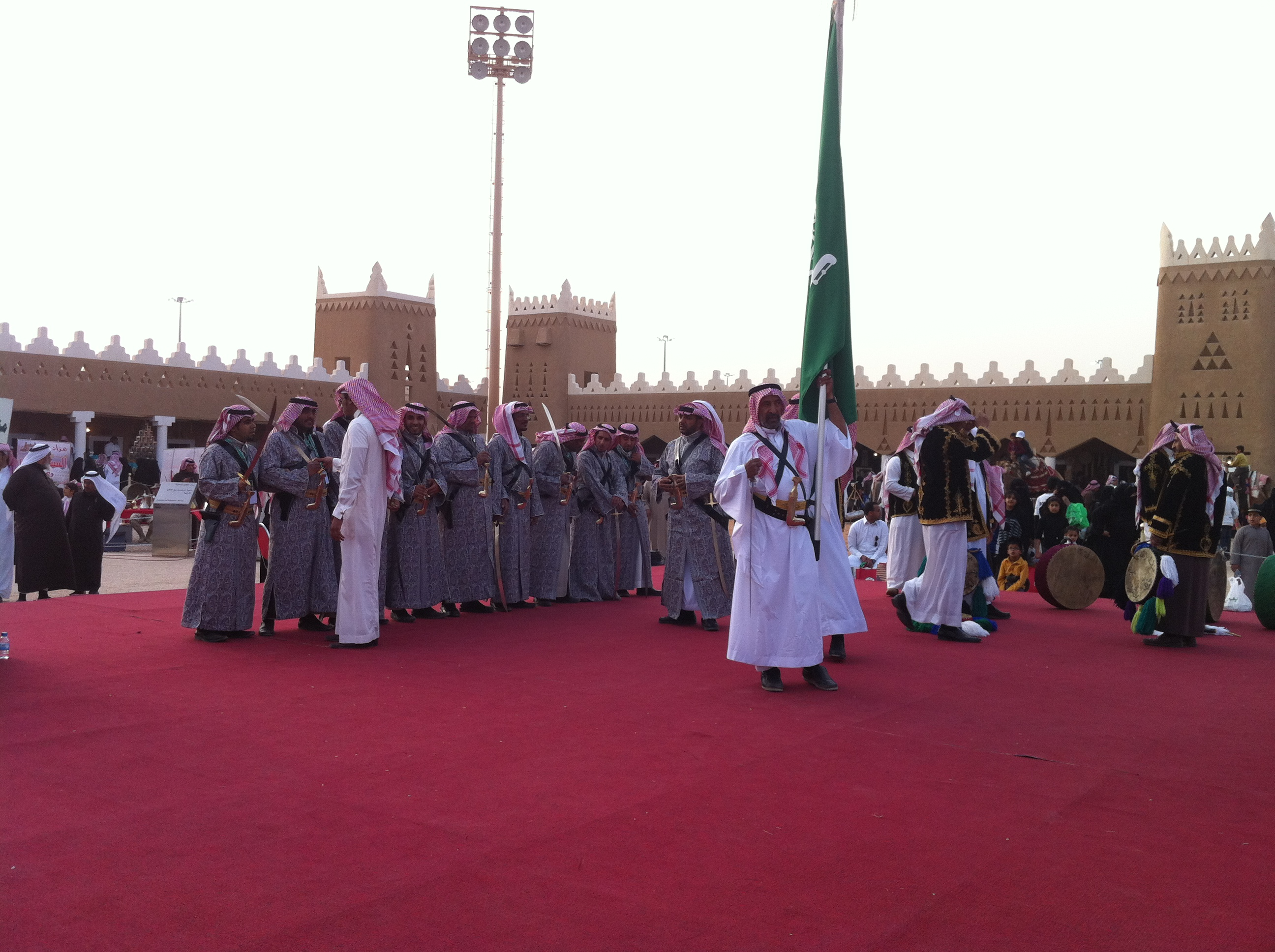 Ardah in Jenadriyah 27